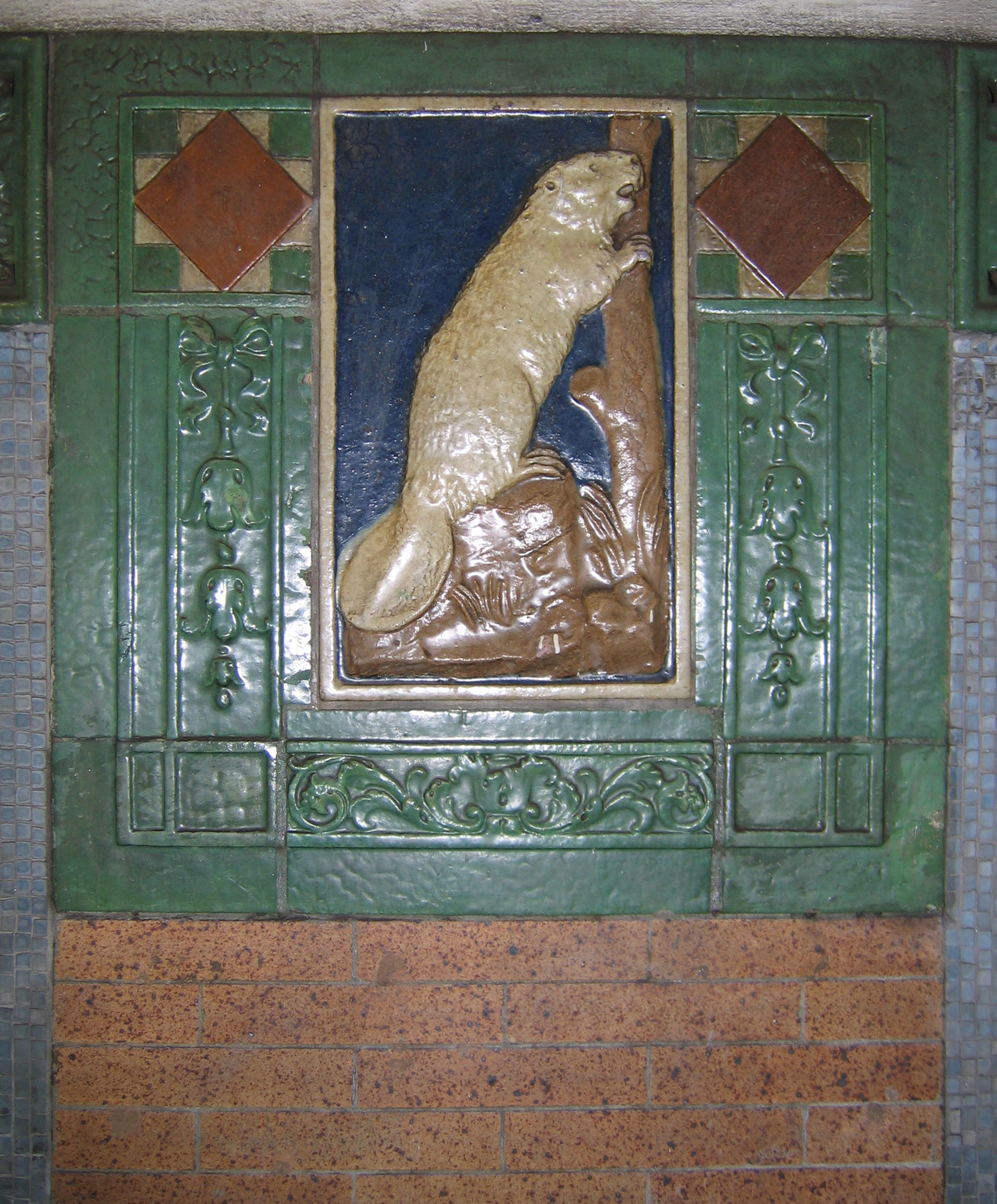 Beaver plaque at the Astor Place New York City Subway station, New York City. The plaque was made by the Grueby Faience Company in 1904, and so is in the public domain.